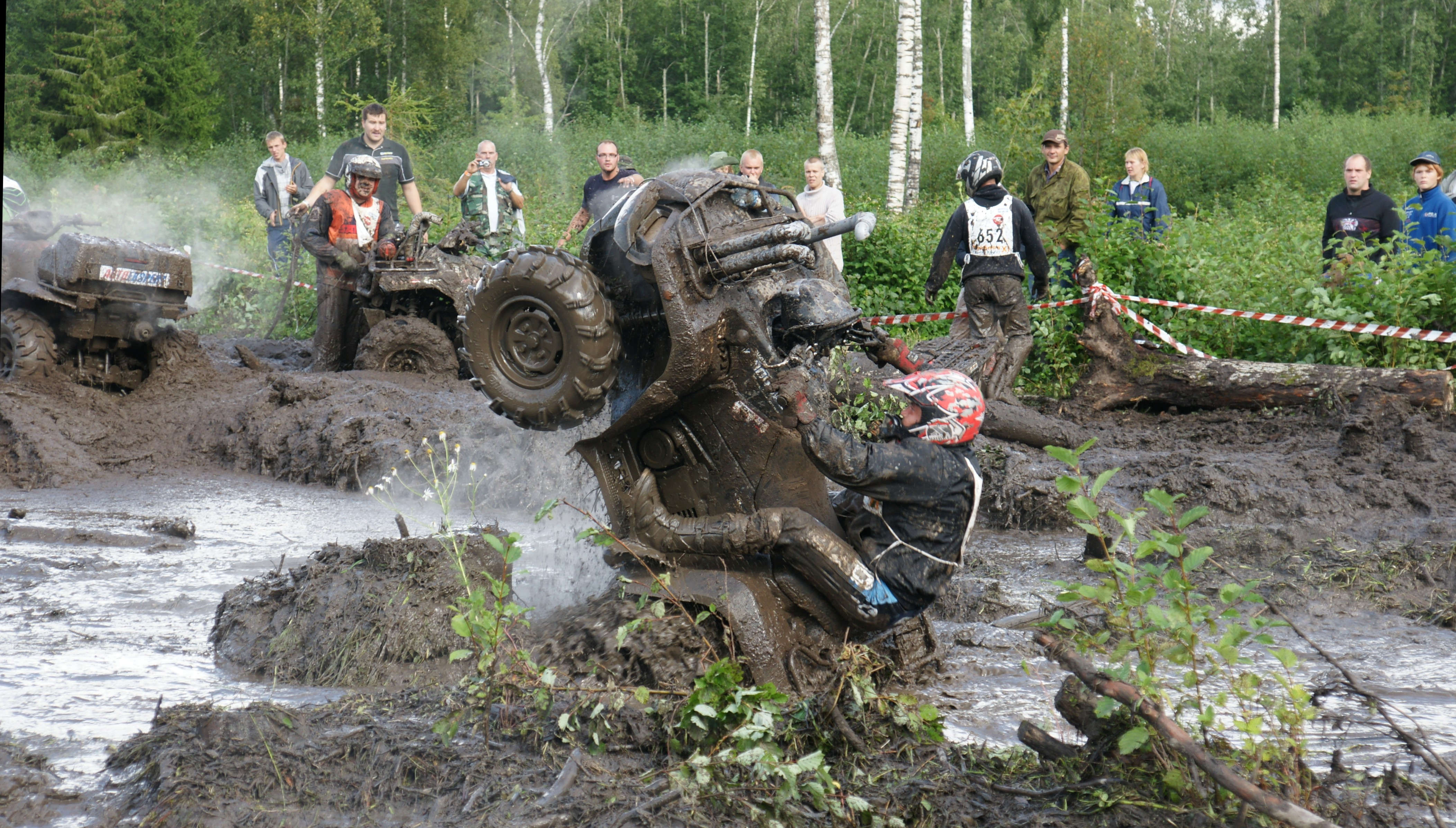 All-terrain vehicle in mud prior to flip.